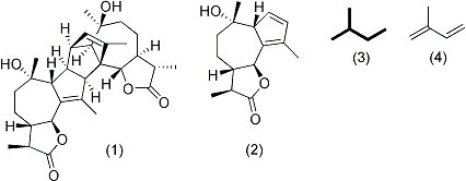 Illustration of terpene components of Absinthin.